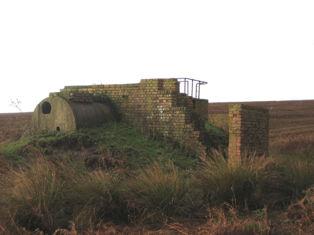 RAF Wrexham Minera Q site During the 2nd World War there was a decoy airfield on this site. It was operational from Nov 1941 to Nov 1943. All that remains is this control bunker. More information in 'Wings Across the Border' Vol 3 by Derrick Pratt & Mike Grant.